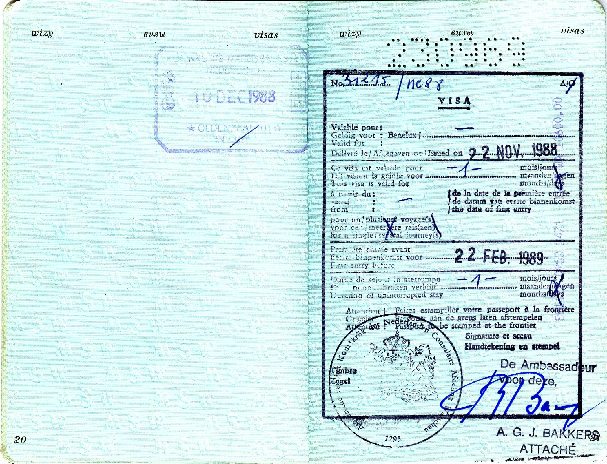 Pre-Schengen visa from the Netherlands, with entry stamp from Oldenzaal, 1988